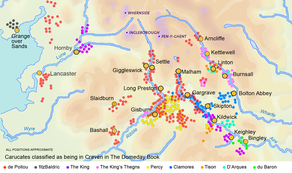 The Domesday Book of 1086 lists the lands in Craven ascribed to the Norman Lords. From this the borders of the historic region can be estimated.